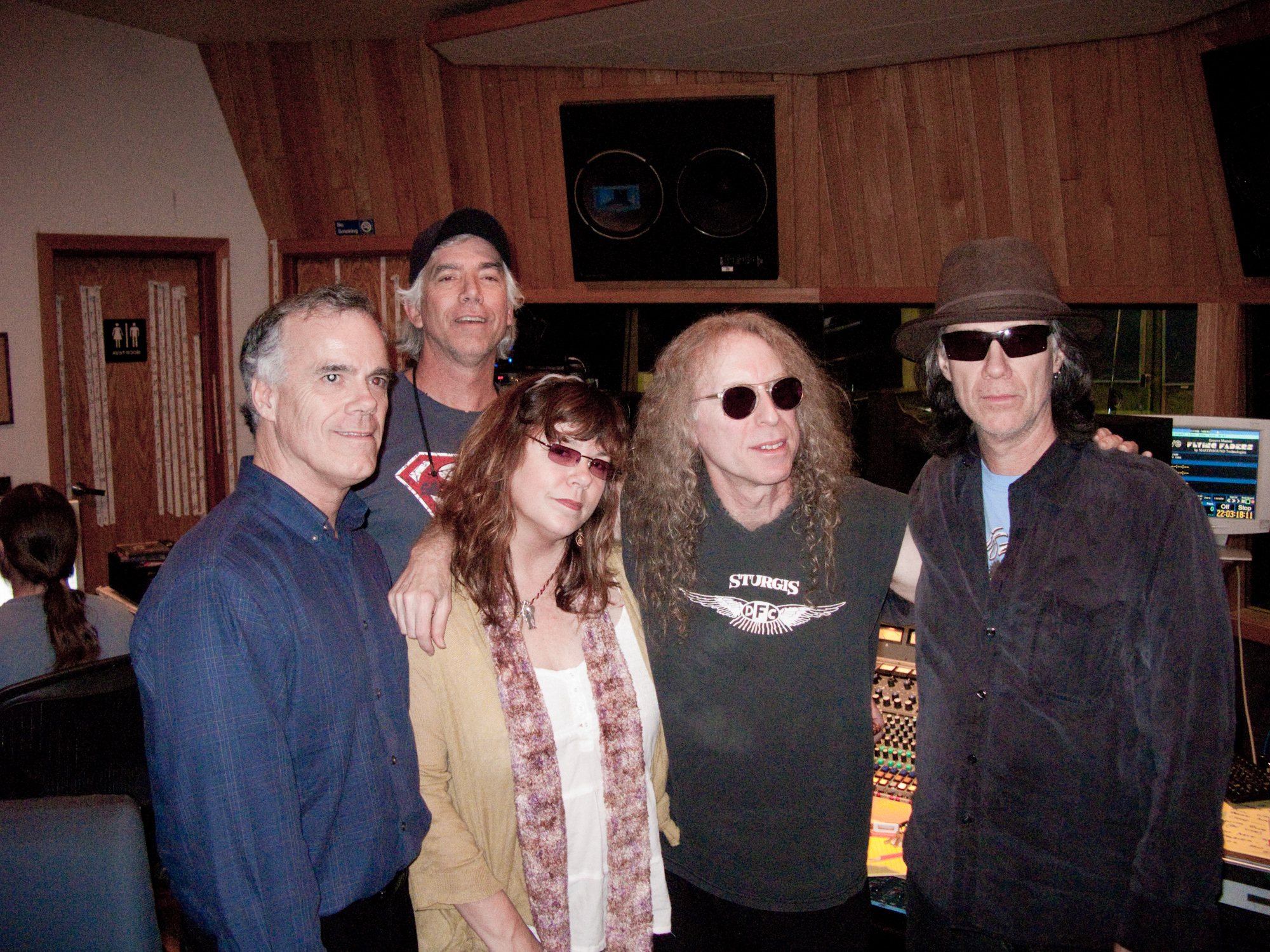 The Cowsills with Waddy Wachtel. Left to right: Bob Cowsill, Paul Cowsill, Susan Cowsill, Waddy Wachtel, John Cowsill